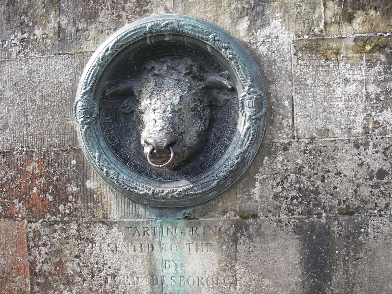 Displayed above the rebuilt Iffley Lock.